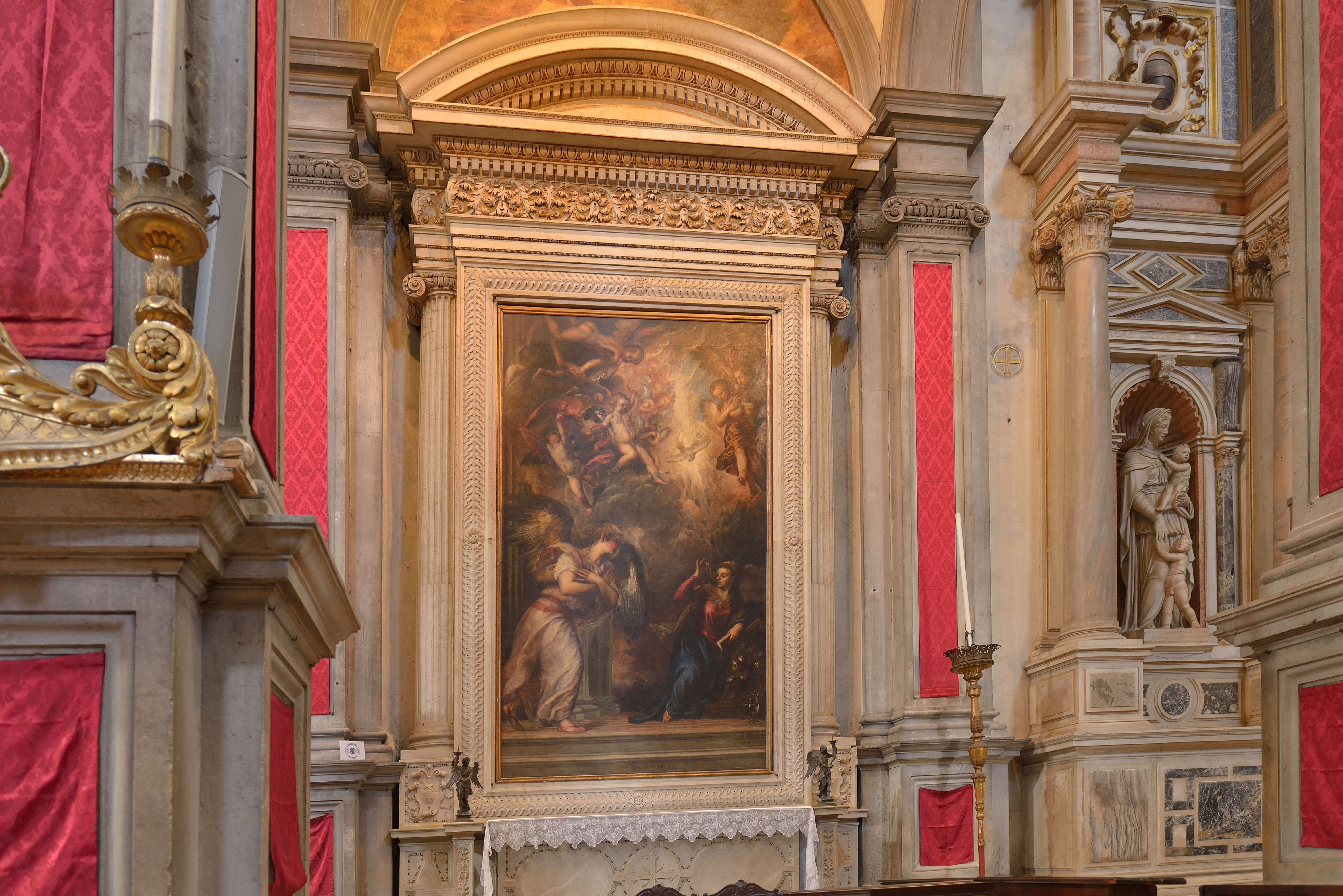 Church of San Salvador, in Venice. Painting of Annunciation by Tiziano Vecellio